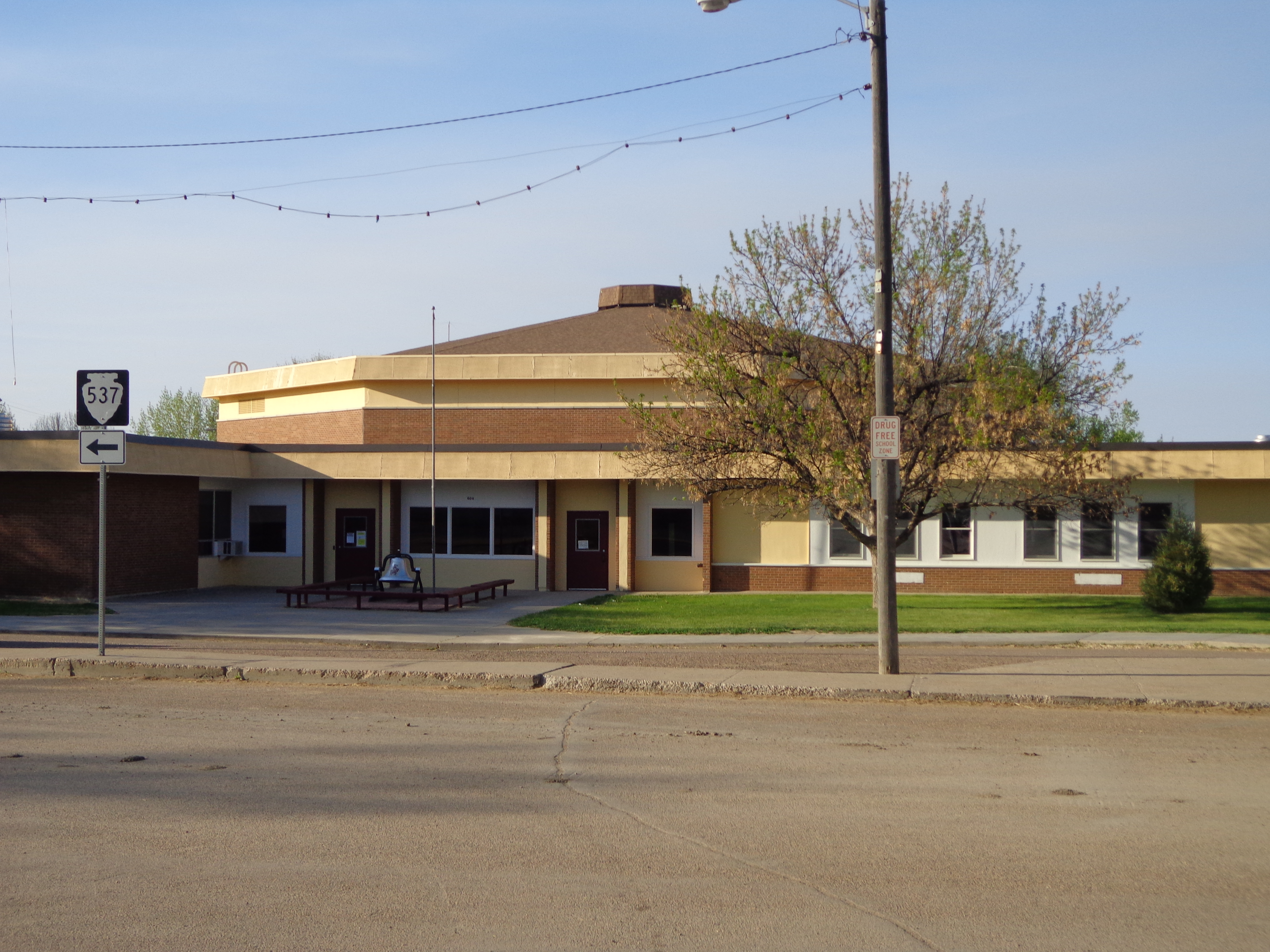 A picture of Hinsdale Public Schools.